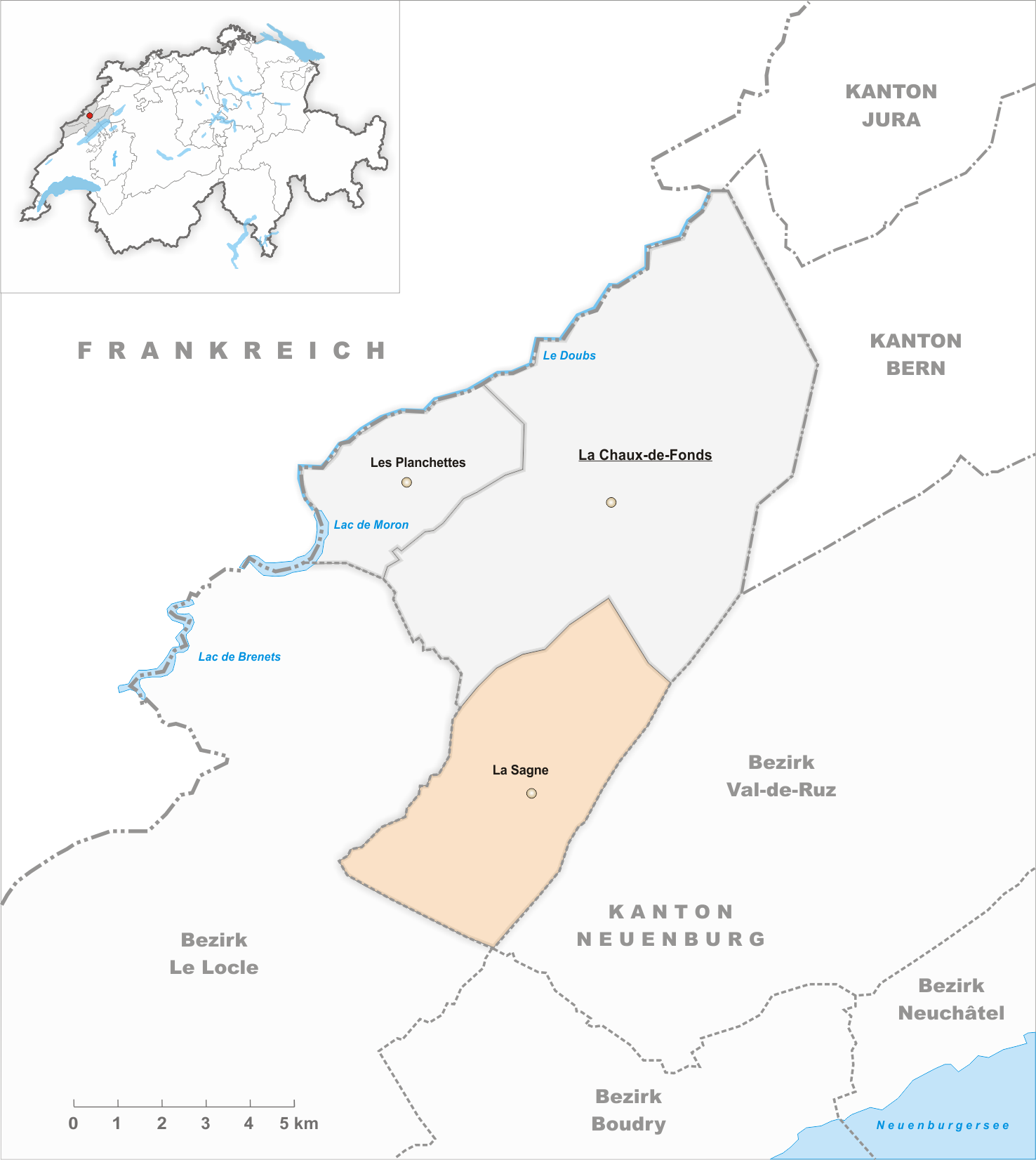 Municipality La Sagne